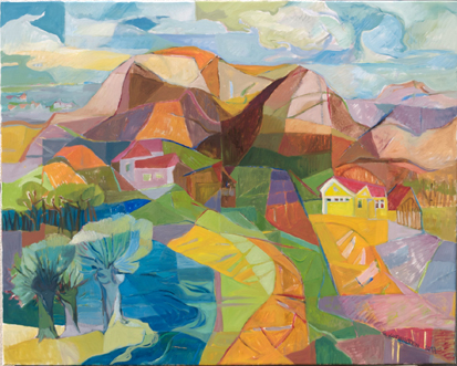 Painting by Georg Königstein